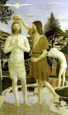 The Baptism of Jesus Christ, by Piero della Francesca, 1449